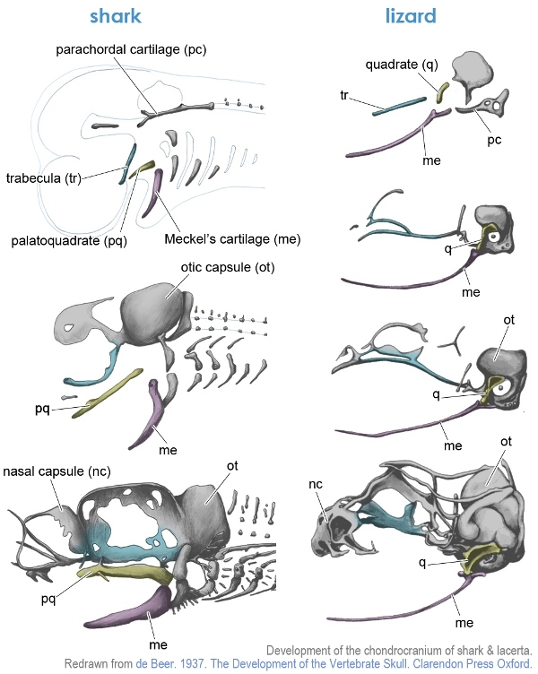 The development of the vertebrate chondrocranium. Examples of the shark and lizard(Lacerta). Redrawn from de Beer. 1937. The development of the vertebrate skull.